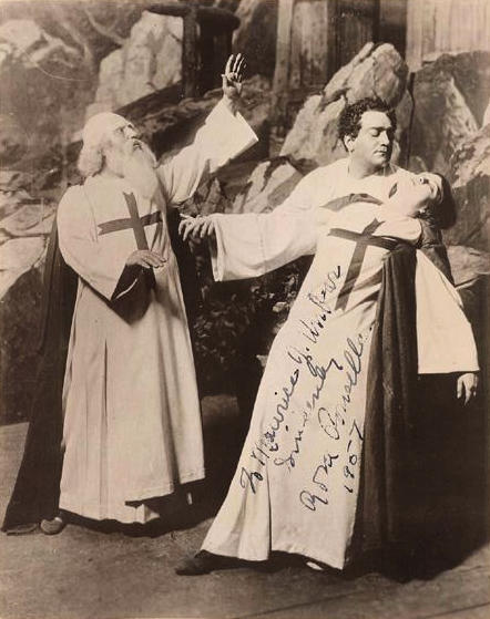 Jose Mardones, Enrico Caruso, and Rosa Ponselle and in La forza del destino, an 1869 opera by Giuseppe Verdi